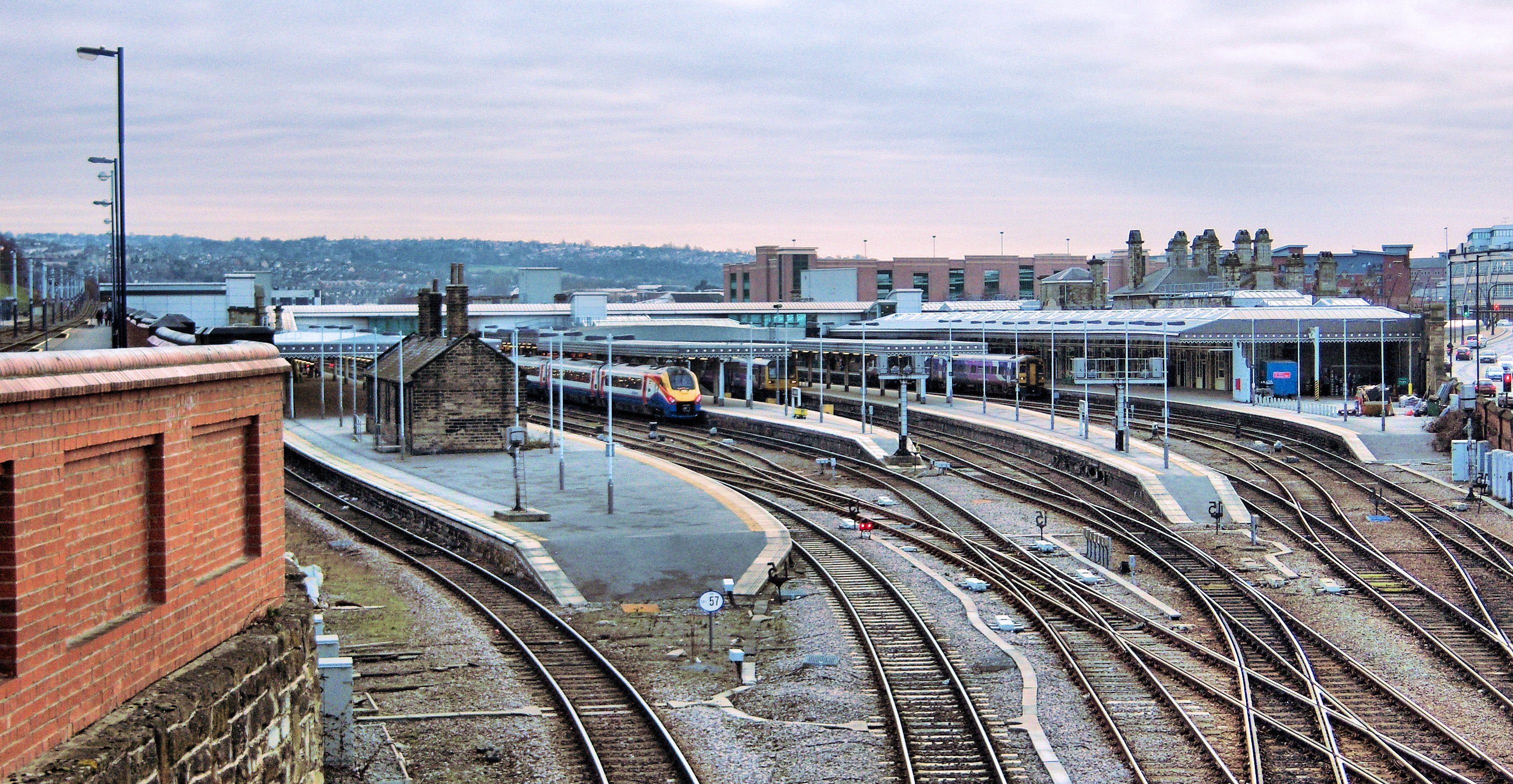 A panoramic view of Sheffield Station, Sheffield, UK.